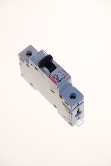 Circuit breaker 1 pole